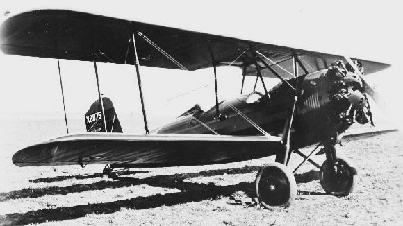 Catalog #: 00071197 Manufacturer: Spartan Designation: C-3